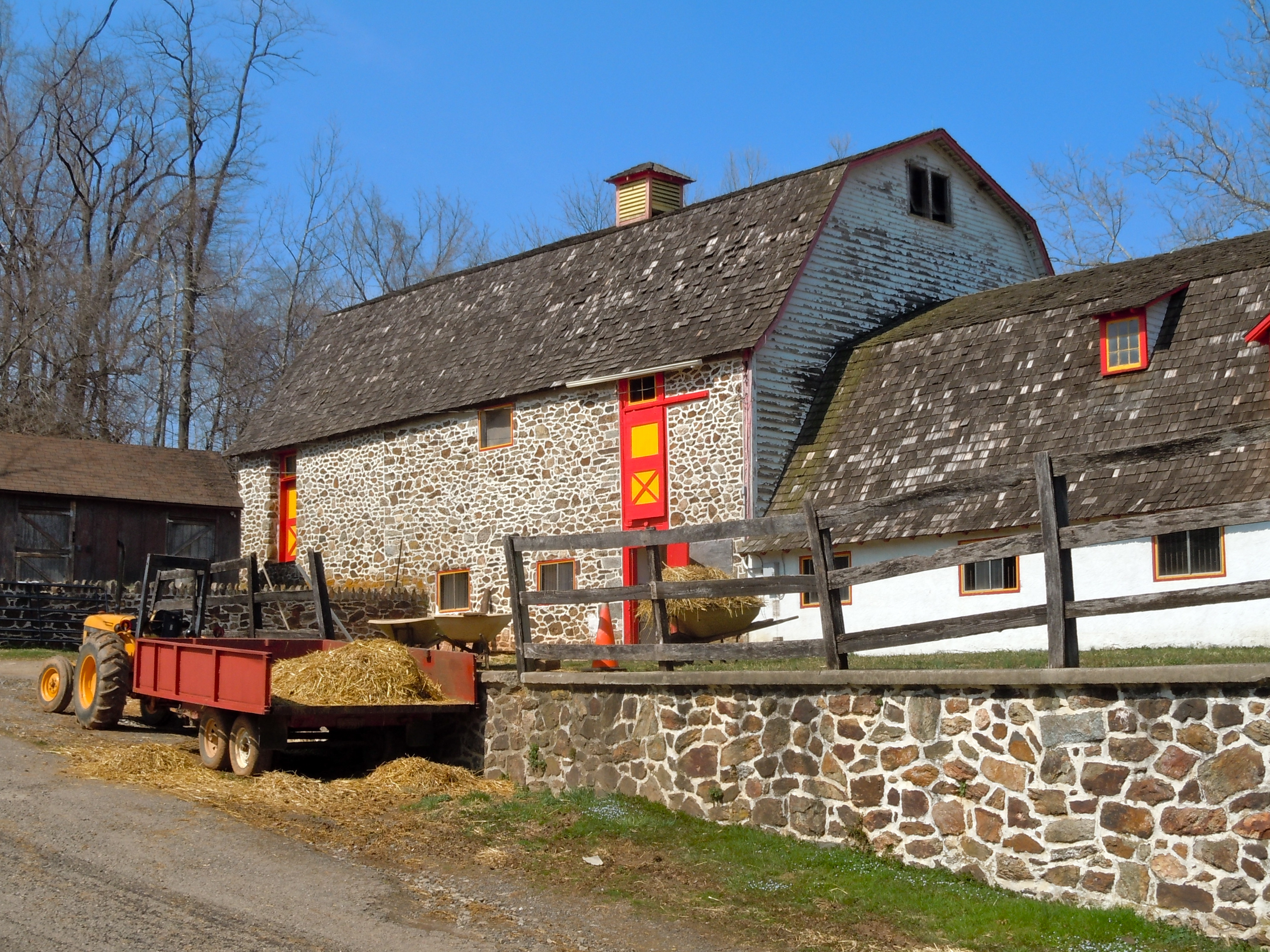 Barn at Derbydown Homestead on NRHP since February 4, 1973. At the junction of CR 15077 and 15080, in West Bradford Township, Chester County, Pennsylvania. Nearby house is birthplace and longtime home of Humphrey Marshall, botanist. Part of a working farm, the barns are very impressive. See Derbydown House.JPG